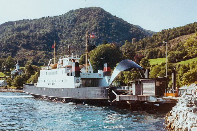 MF Aurland av Lavik ferry terminal in 1984.